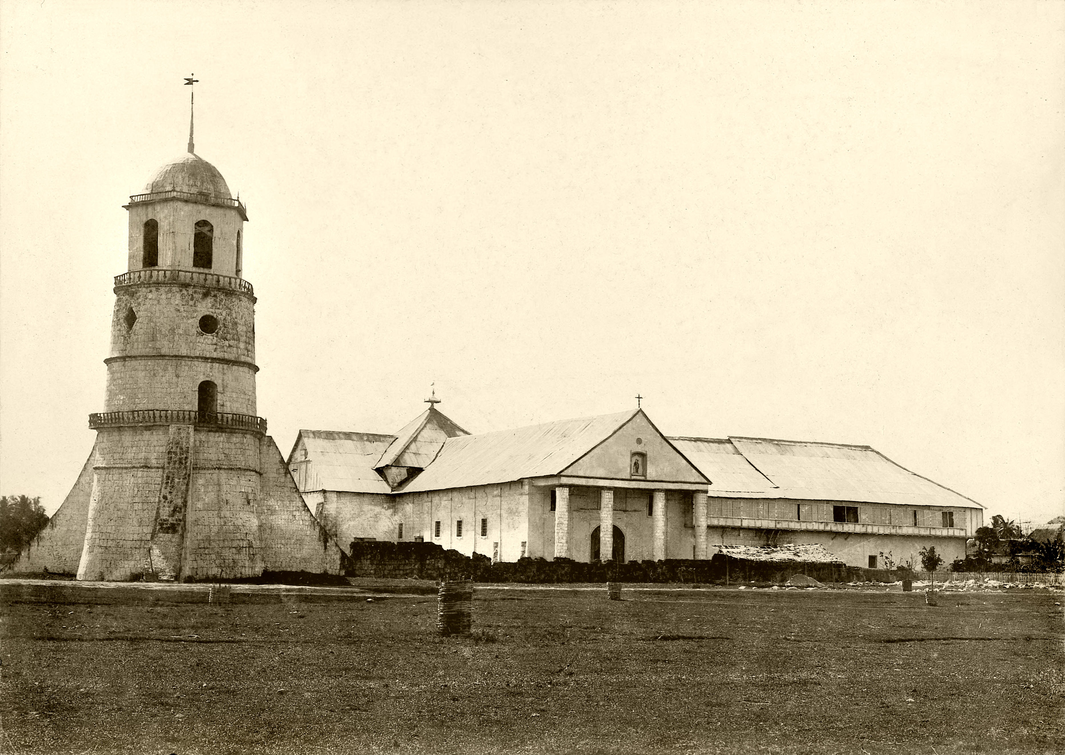 The Dumaguete Church in Negros Oriental, Philippines in 1891. Only the tower is still extant today, the church has been replaced by a newer structure.